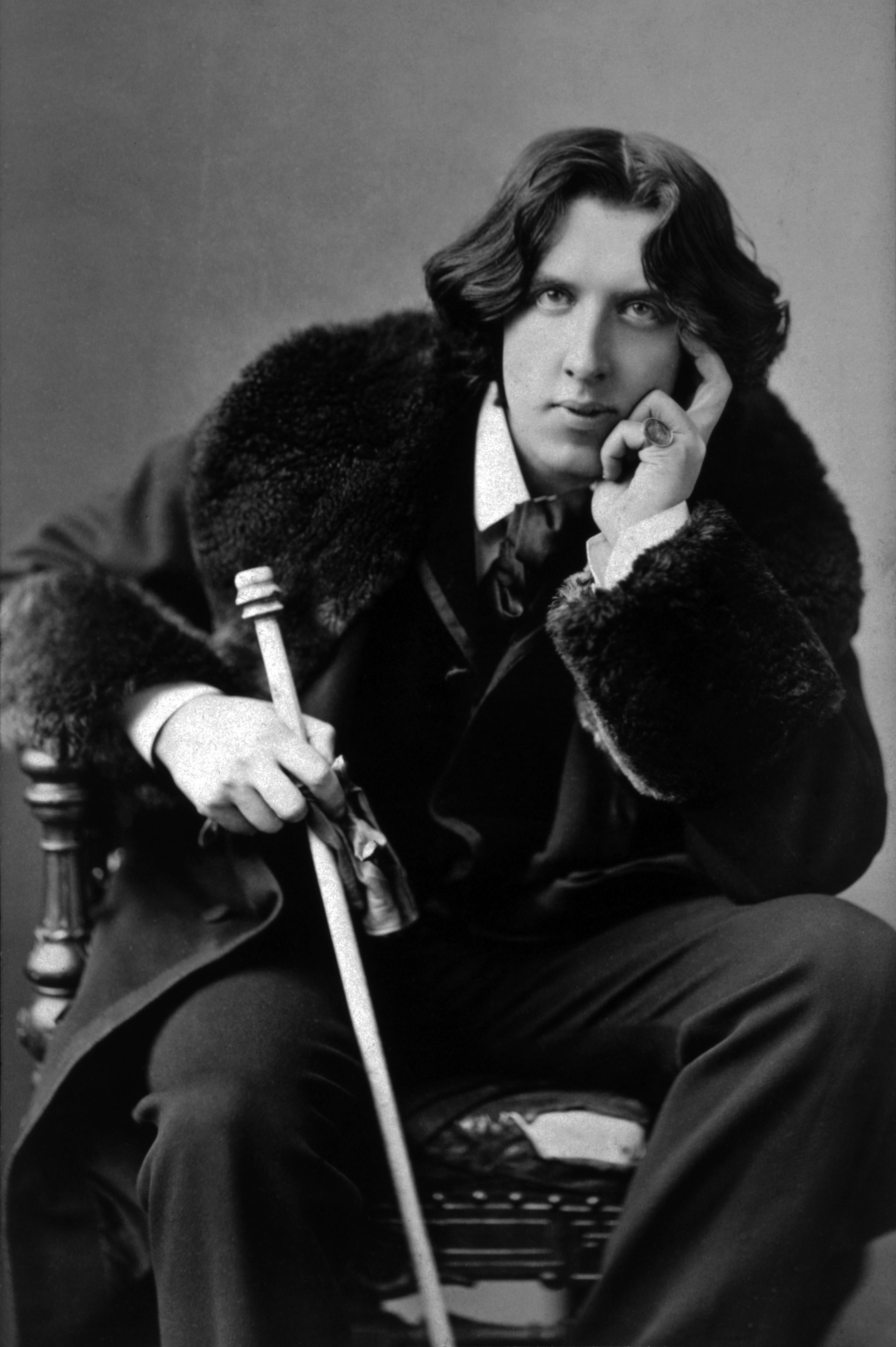 Oscar Wilde, three-quarter length portrait, facing front, seated, leaning forward, left elbow resting on knee, hand to chin, holding walking stick in right hand, wearing coat.